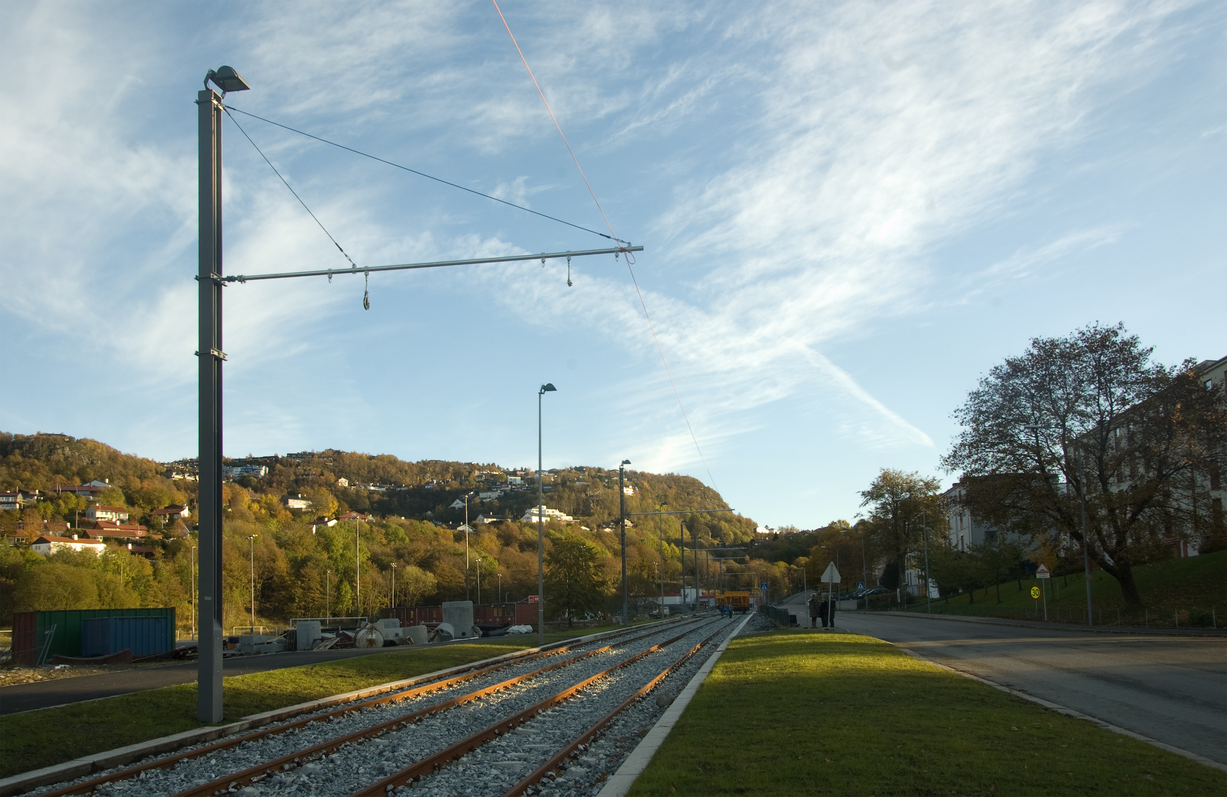 Bergen Light Rail trackage under construction at Slettebakken in Bergen, Norway.